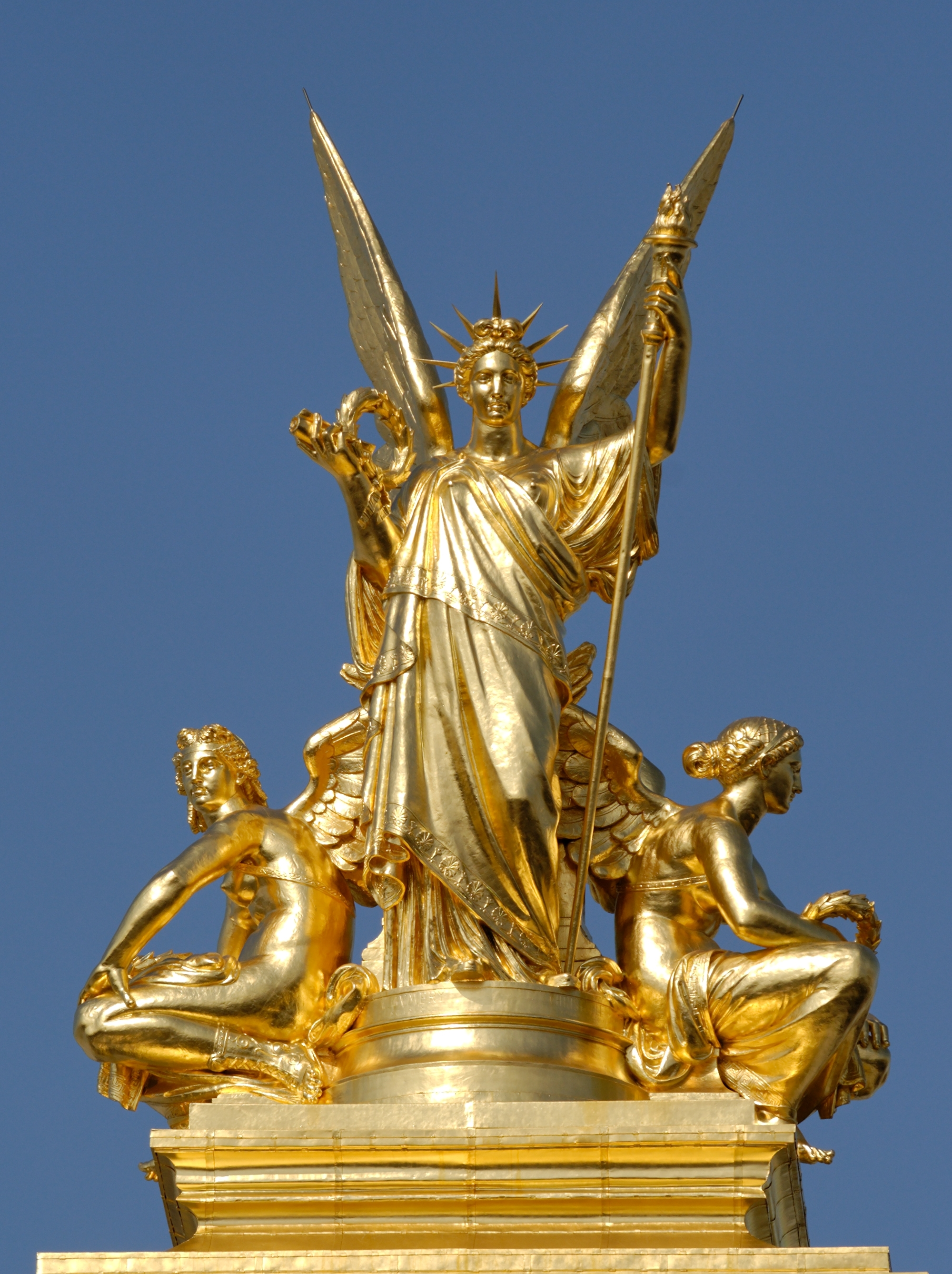 Poetry by Charles Gumery (1827–1871). Gilt bronze, H. 7.5 m (24 ft. 7 ¼ in.). Crowning of the façade of the Palais Garnier, Paris.